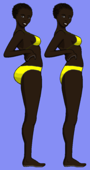 This drawing is a remake of a drawing of black female figures with different butt sizes that was used in an experiment to find out what South African men, British Caucasian men and British African men considered to be the most attractive butt size and breast size for white and black women. This image only shows the two extreme variations of butt size on black female figures used in the experiment. The black female figure with the largest butt shown on the viewer's left received the highest average attractiveness rating from South African men while the black female figure with a butt size which was intermediate between the two extremes shown above received the highest average attractiveness ratings from both British African and British Caucasian men. The black female figure with the smallest butt shown on the viewer's right did not receive the highest average attractiveness rating from any group. See figure 2 on page 320 of the Swami et al. (2009) study for the distribution of attractiveness ratings which were given by the three groups of men. The citation for the journal article is below. Swami, V et al. (2009). Men's preferences for women's profile waist-to-hip ratio, breast size, and ethnic group in Britain and South Africa. British Journal of Psychology, 100(2), 313-325.